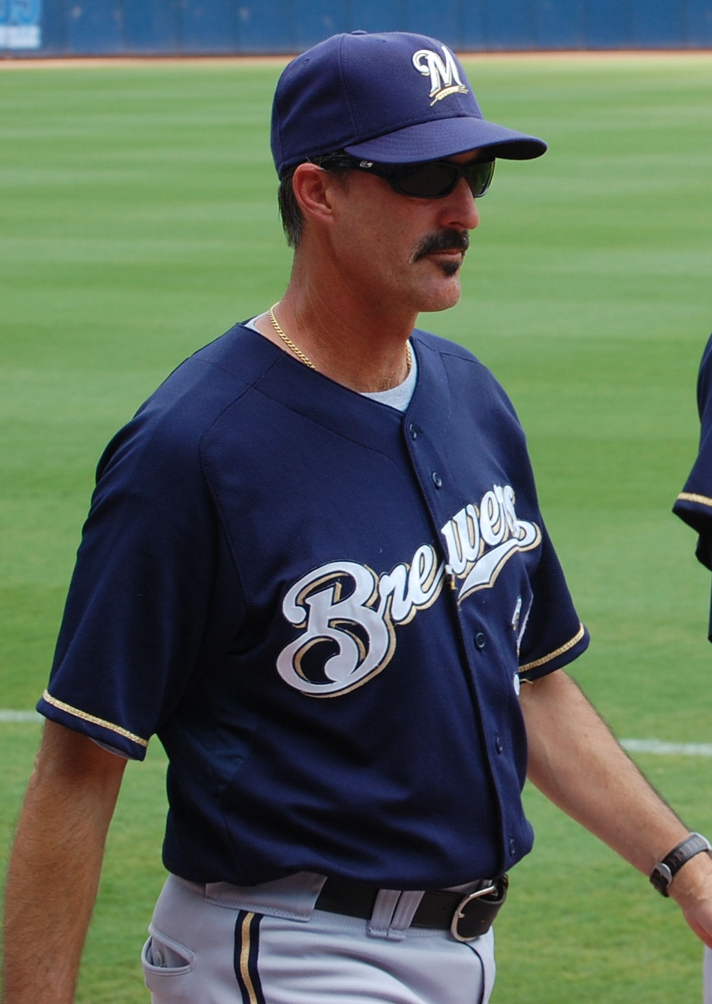 Mike Maddux before a game against the Atlanta Braves